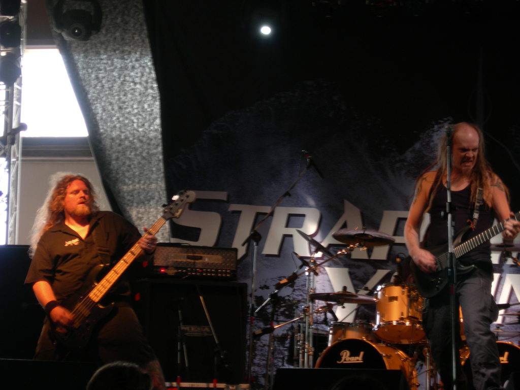 Strapping Young Lad at the Tribute to Flame Fest 2006